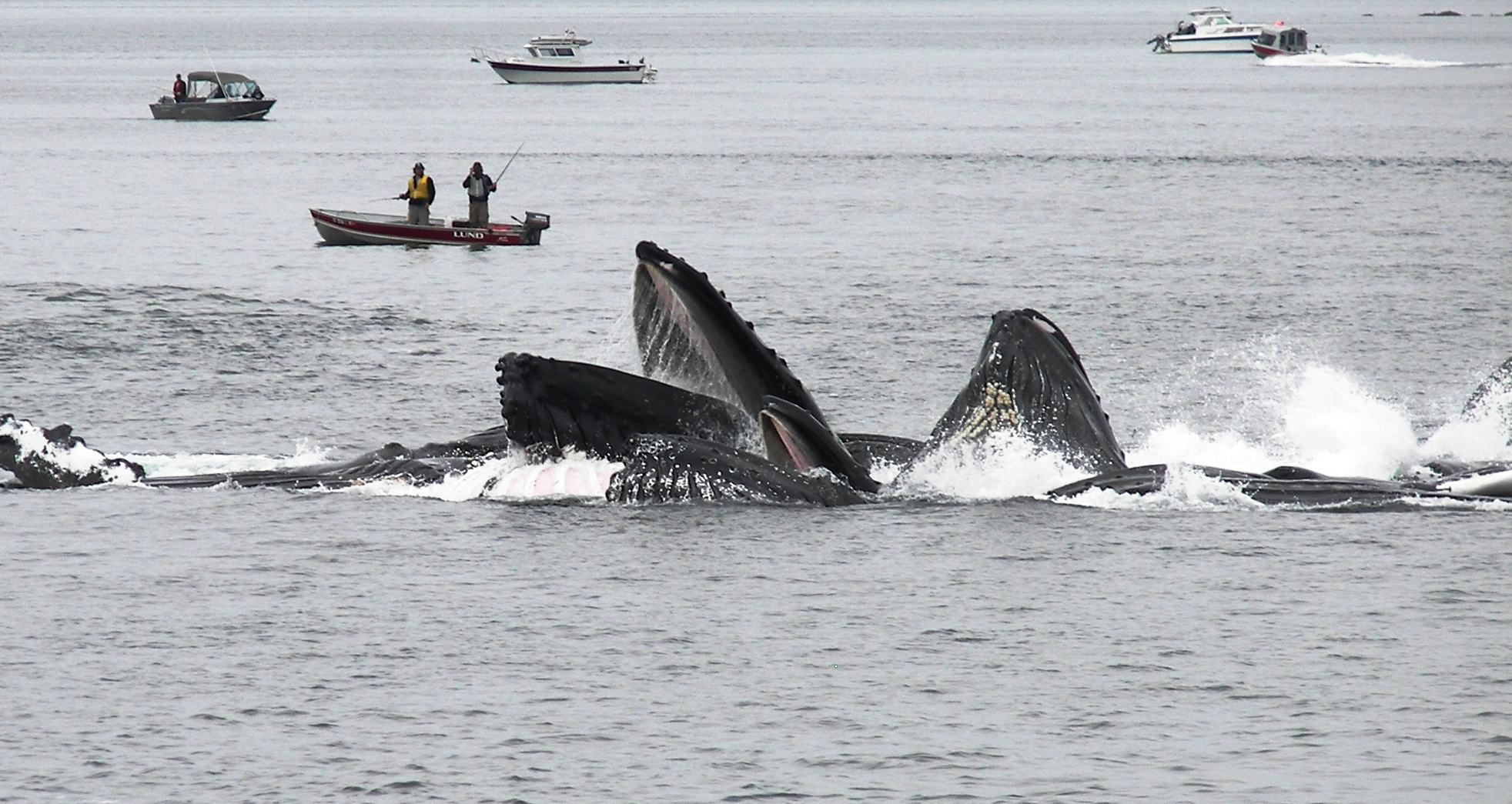 Humpback whales in North Pass between Lincoln Island and Shelter Island in the Lynn Canal north of Juneau, Alaska. This is a group of 15 whales that were bubble net fishing on 18 August 2007.